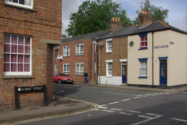 Jericho Showing the Great Clarendon Street/Albert Street junction. Jericho, an area of tightly packed Victorian terraced housing (interspersed with the occasional more modern building) sandwiched between Walton Street and the Oxford Canal, was originally named after a local pub - although it is sometimes said that it was so-called because the houses were jerry built. Although originally a working class district, its proximity to central Oxford has meant inevitable gentrification.